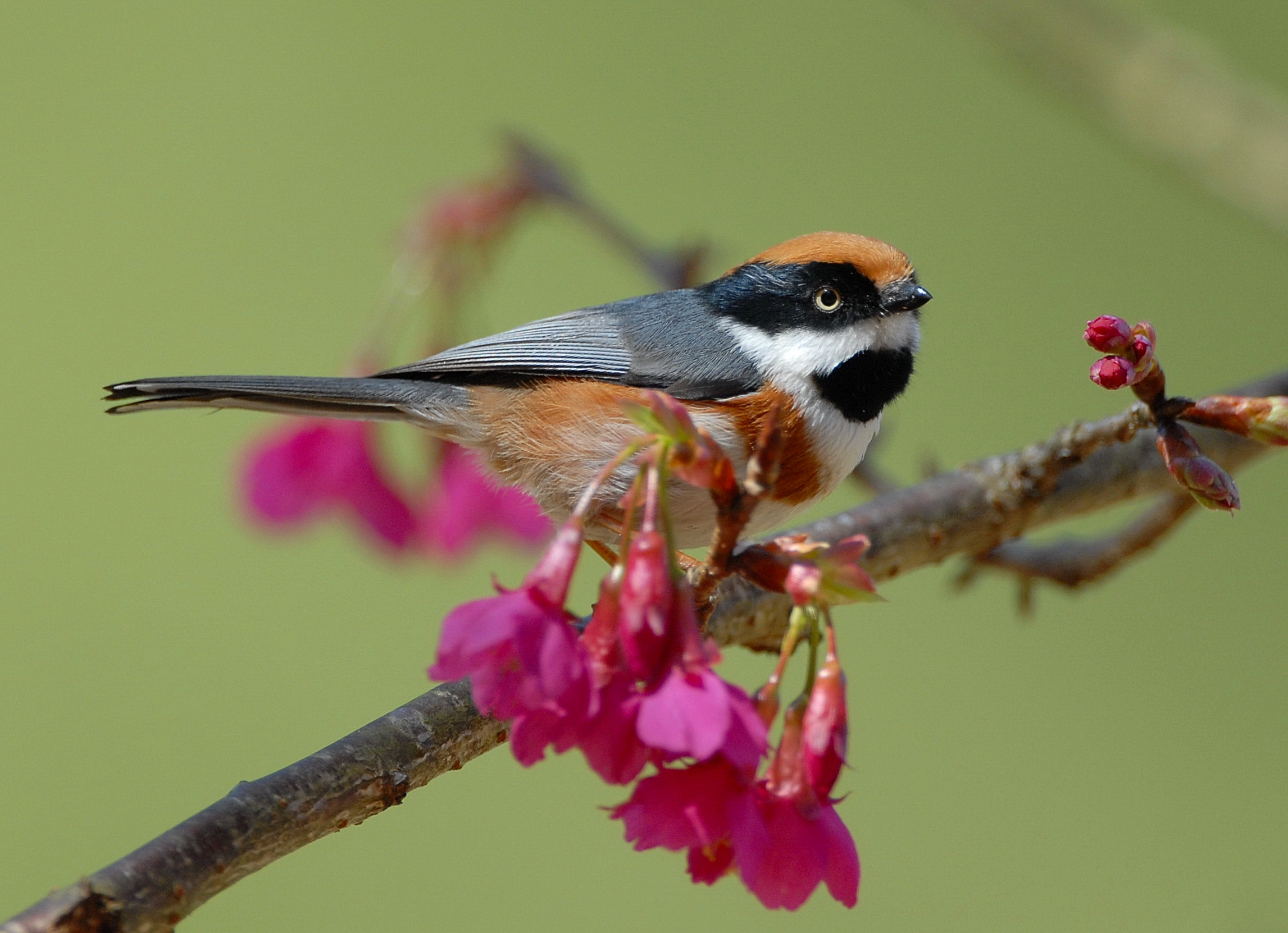 Black-throated Tit (Aegithalos concinnus) on a branch. Wuling Farm, Taiwan.